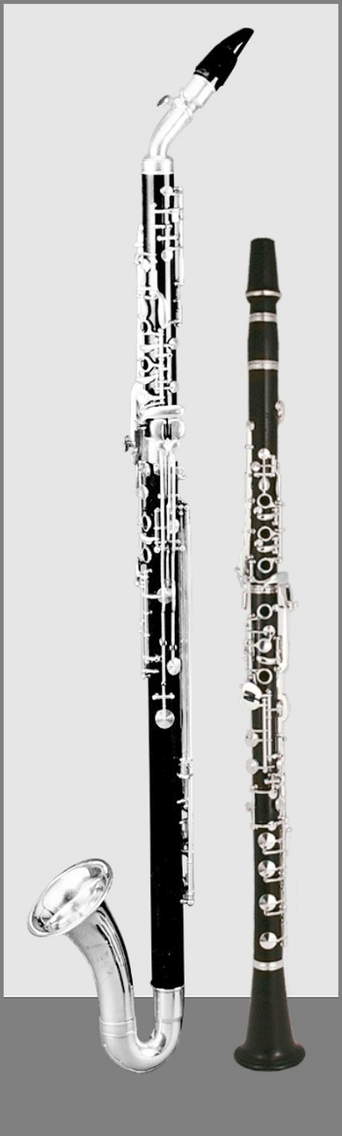 Basset horn and basset clarinet